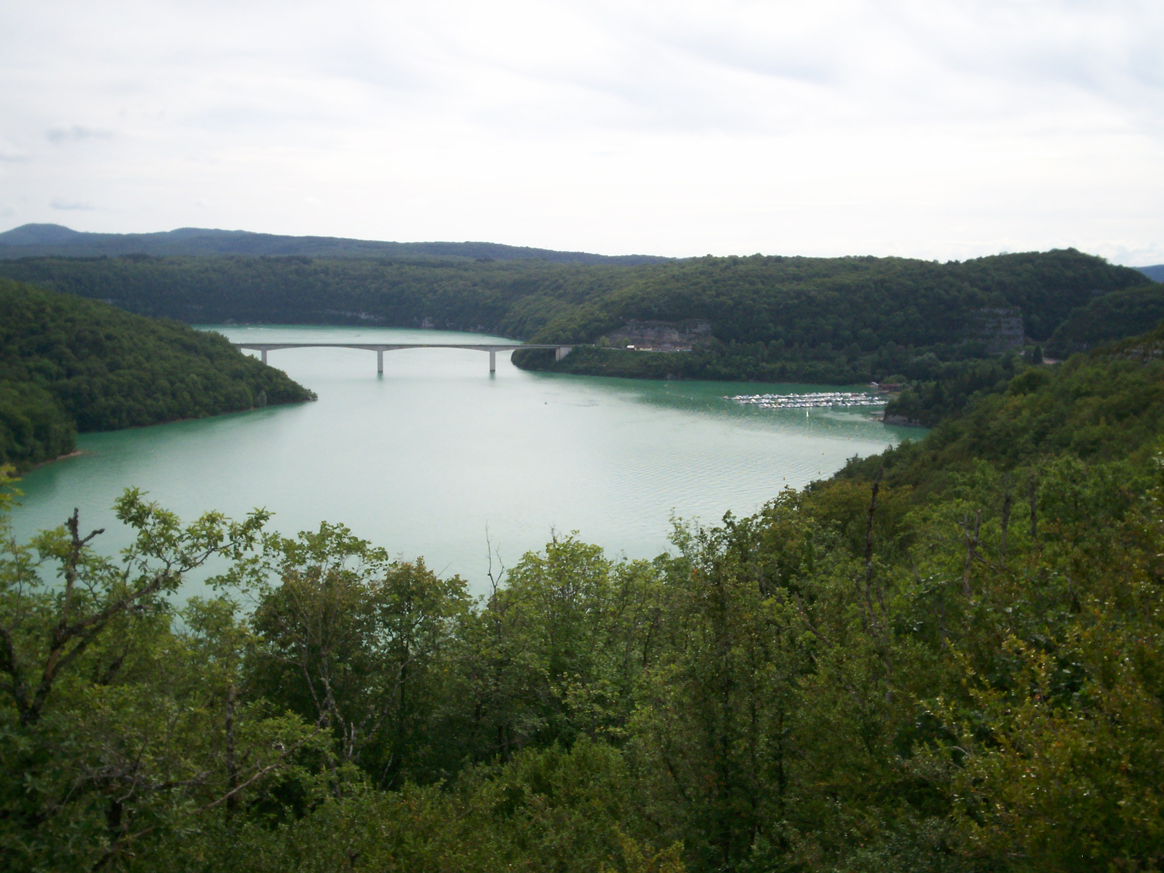 Panoramic view of Pont de la Pyle and Surchauffant in the direction to the south (Jura, France).